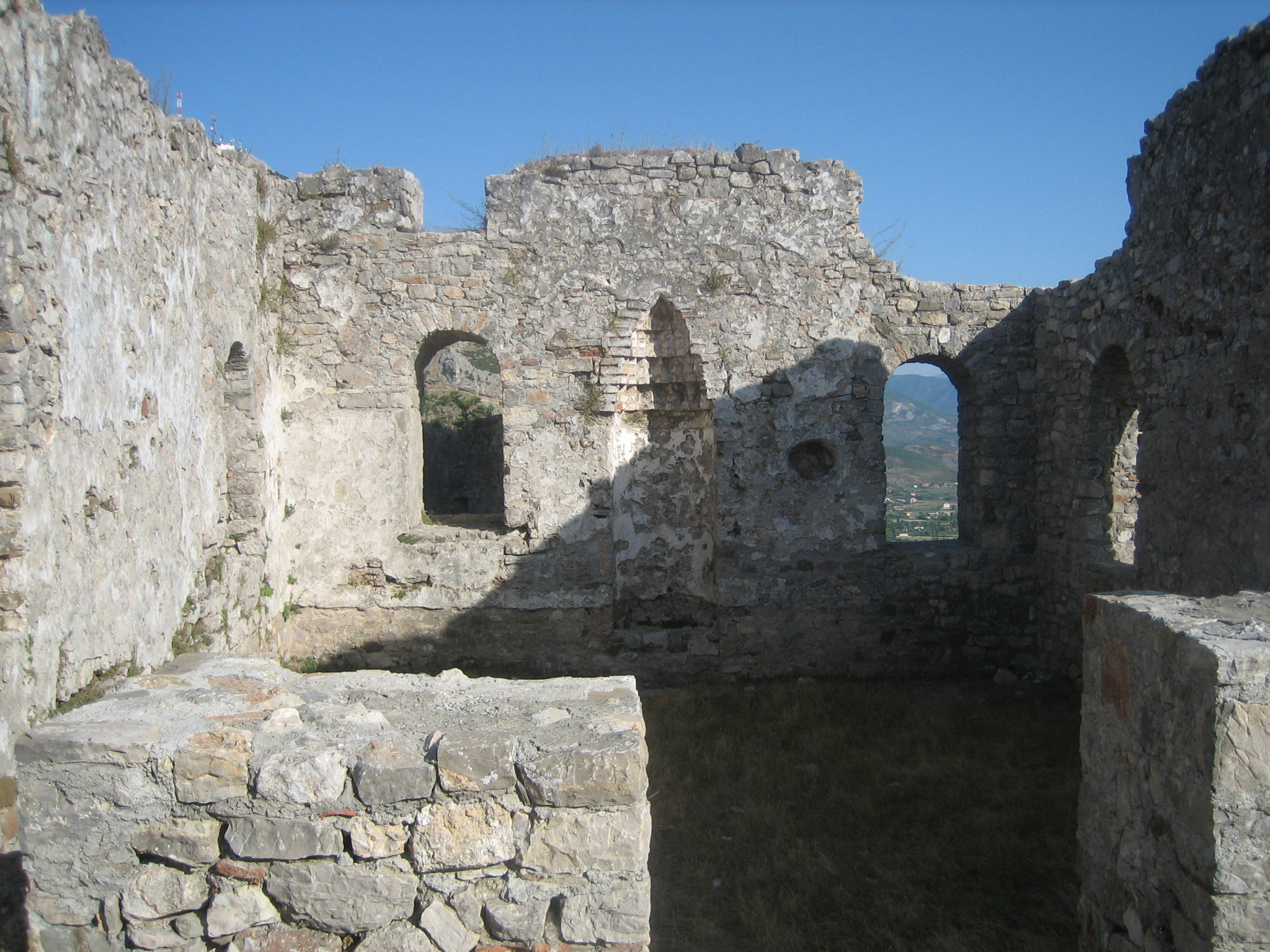 Interior of Lezhë Castle, Lezhë, Albania